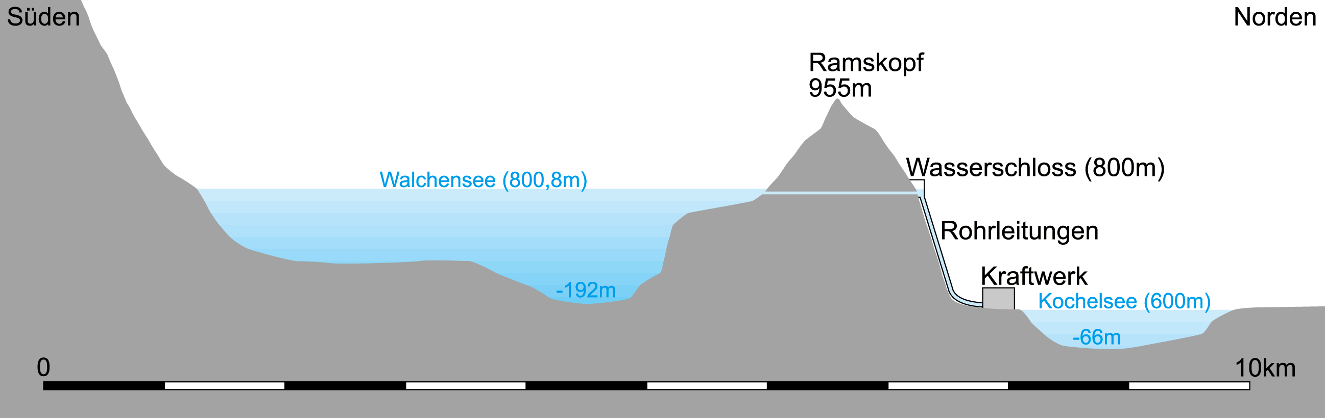 Cut from south to north through Walchen- and Kochelsee with hydroelectric power station. Vertical exaggeration factor: 5.